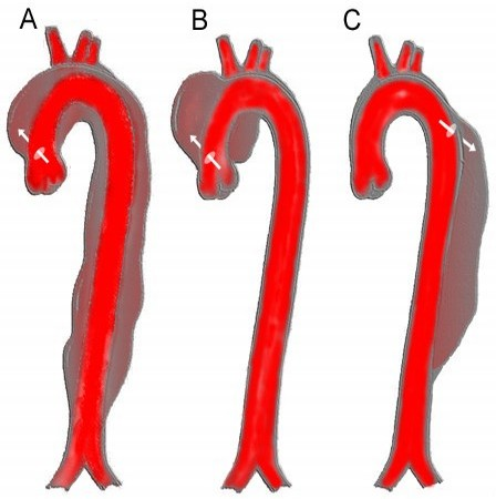 Classification of aortic dissection - Einteilung der Aortendissektion